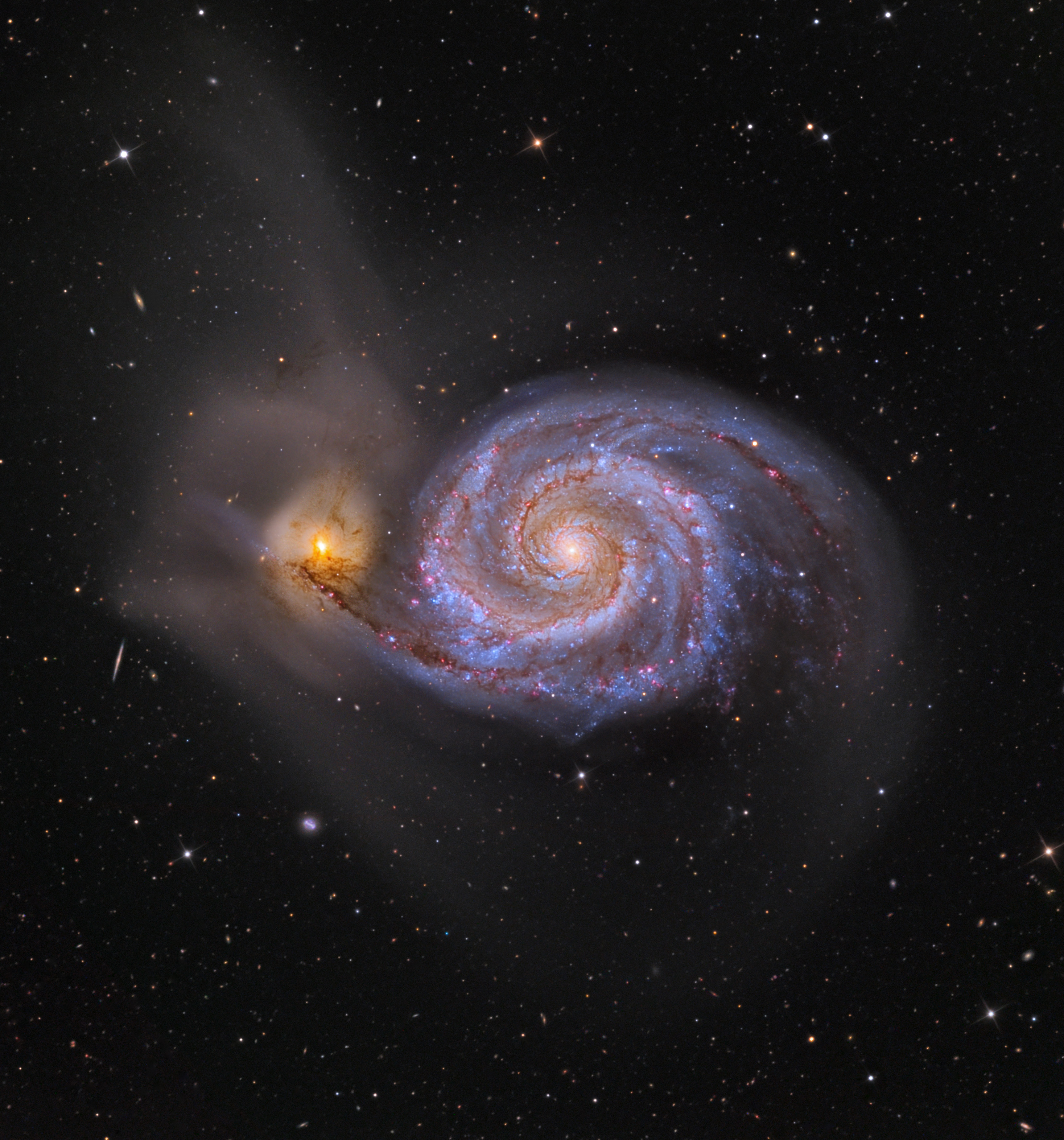 Deep exposures of Galaxies using the 0.8m Schulman Telescope at the Mount Lemmon SkyCenter Credit Line & Copyright Adam Block/Mount Lemmon SkyCenter/University of Arizona